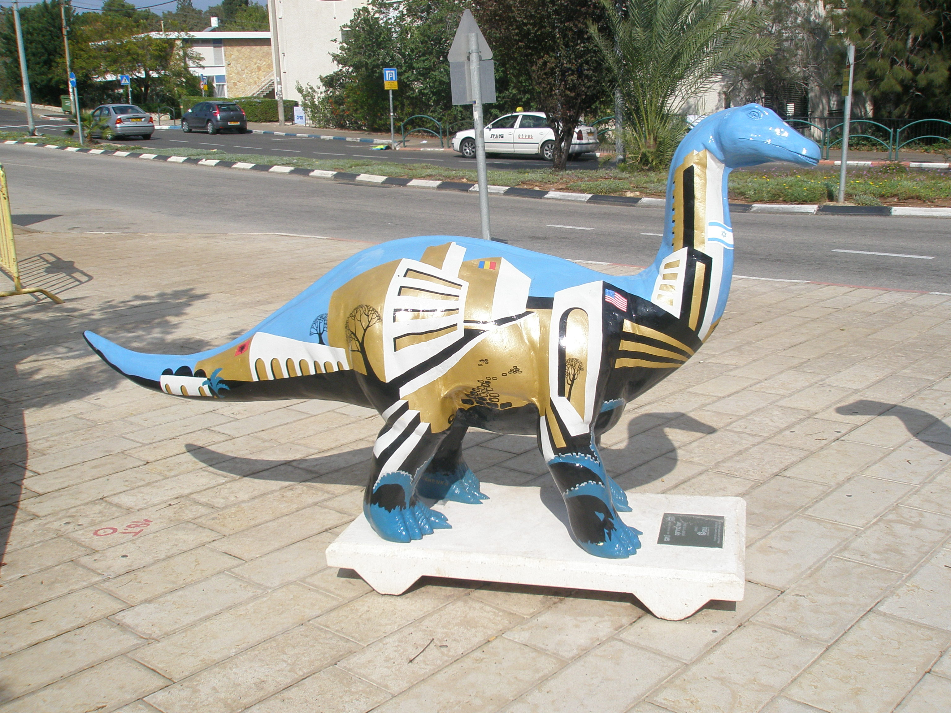 Urbanirex, one of a series of painted dinosaurs sculptures apread in Haifa by the Madatech science museum